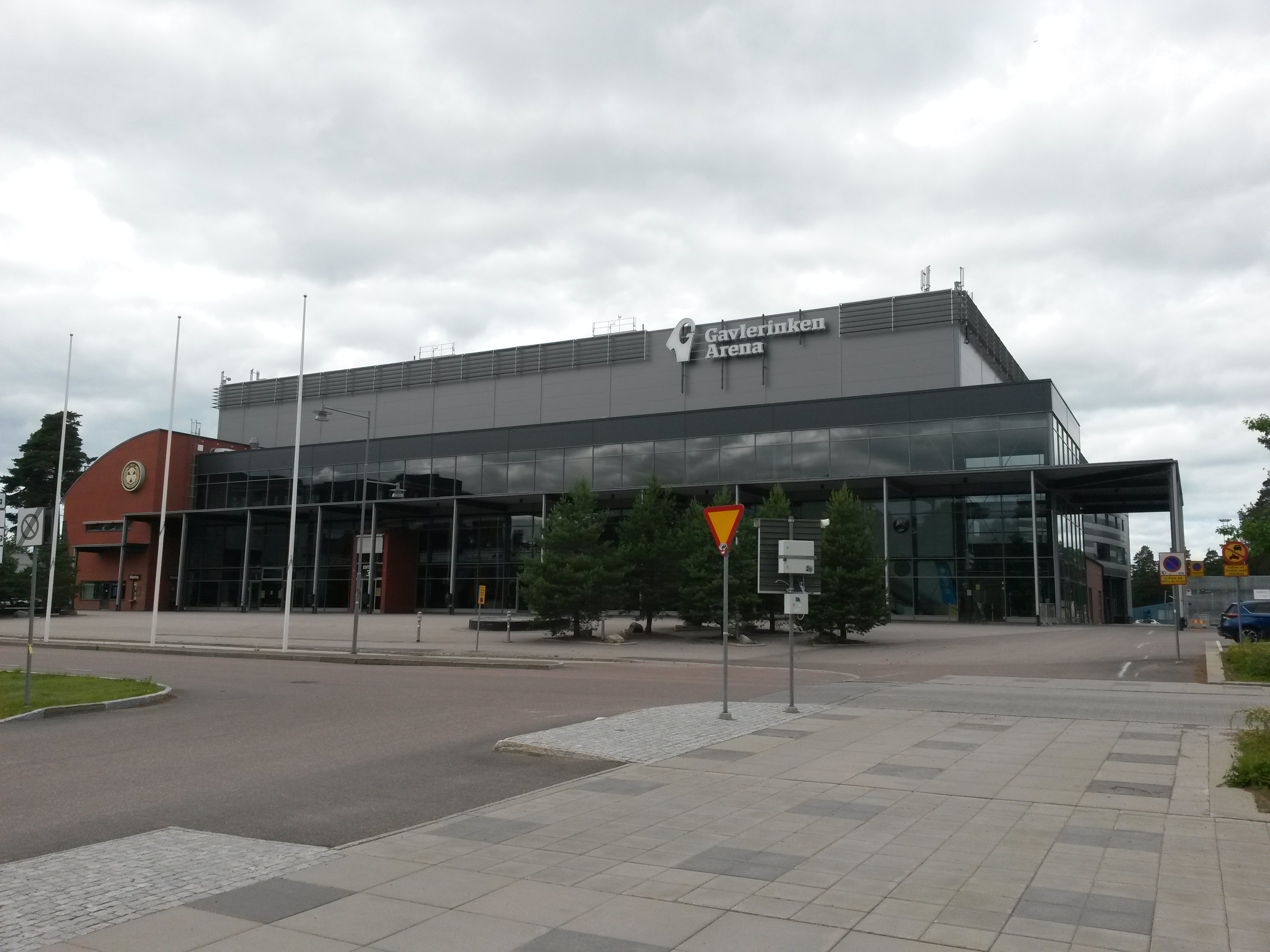 Gavlerinken Arena venue for ice hockey at Gavlehovsvägen 13, Gävle, Sweden